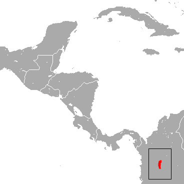 Antioquian Sac-winged Bat (Saccopteryx antioquensis) range